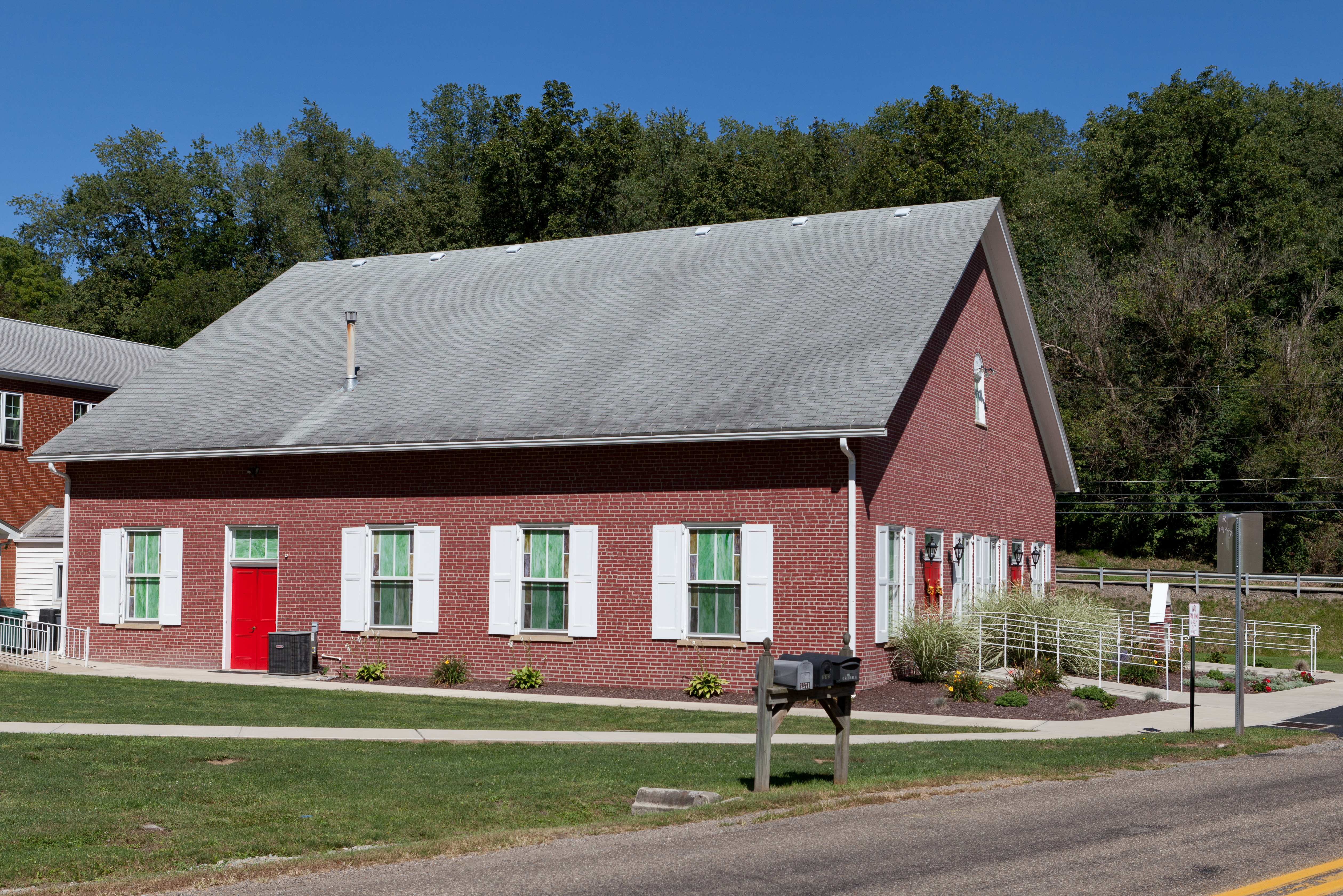 Mingo Creek Presbyterian Church and Churchyard, Junction of Pennsylvania Route 88 and Mingo Church Road, northwest of Courtney Union Township